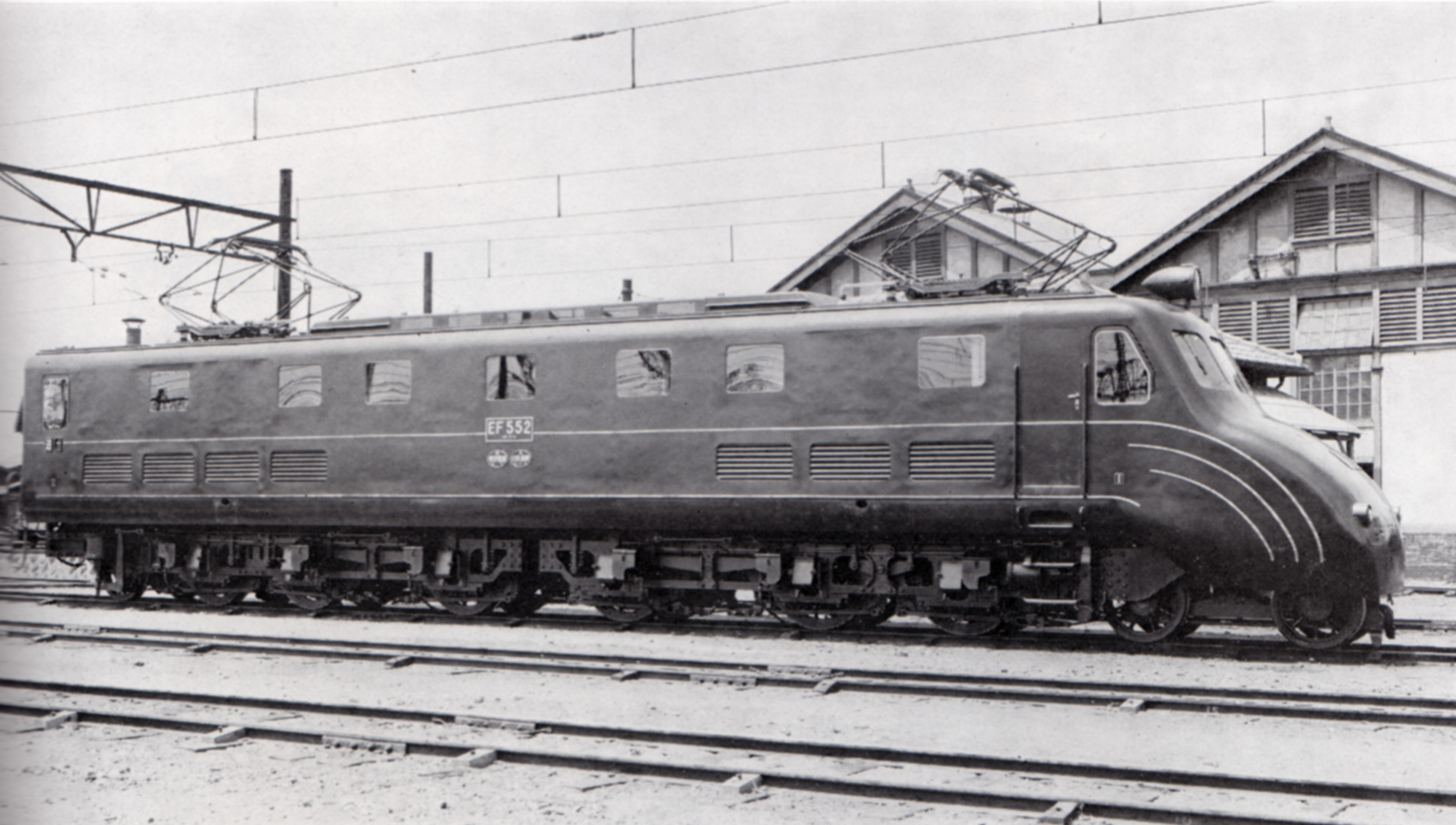 Japanese Governmental Railways type EF55 electric locomotive No.2. Total 3 locomotives were made from this type. All had streamlined style. This photo shows pre-WW2 style. The loco had a retractable front coupler at that time.